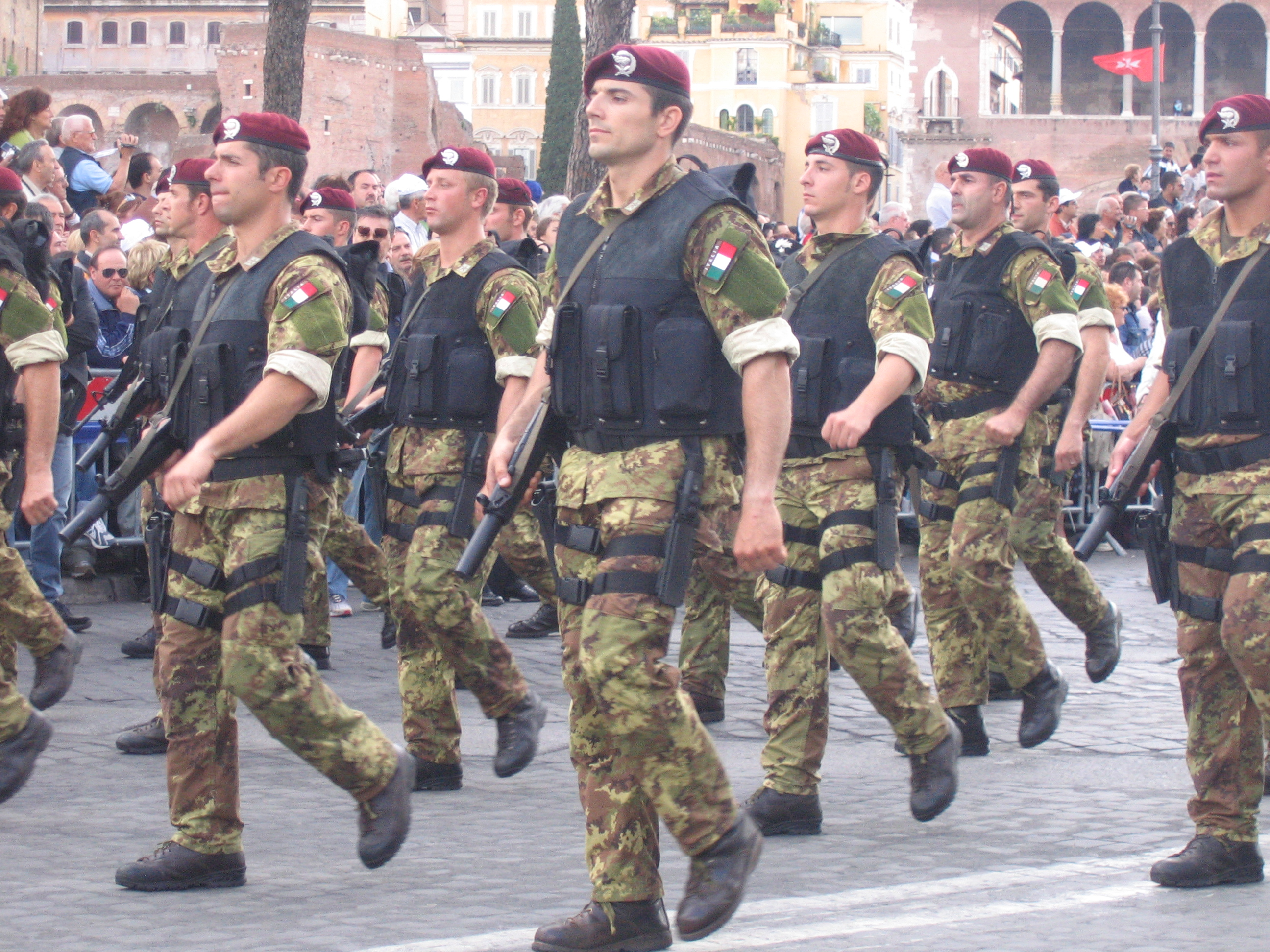 9° Rgt. "Col Moschin" - Incursori of the Army